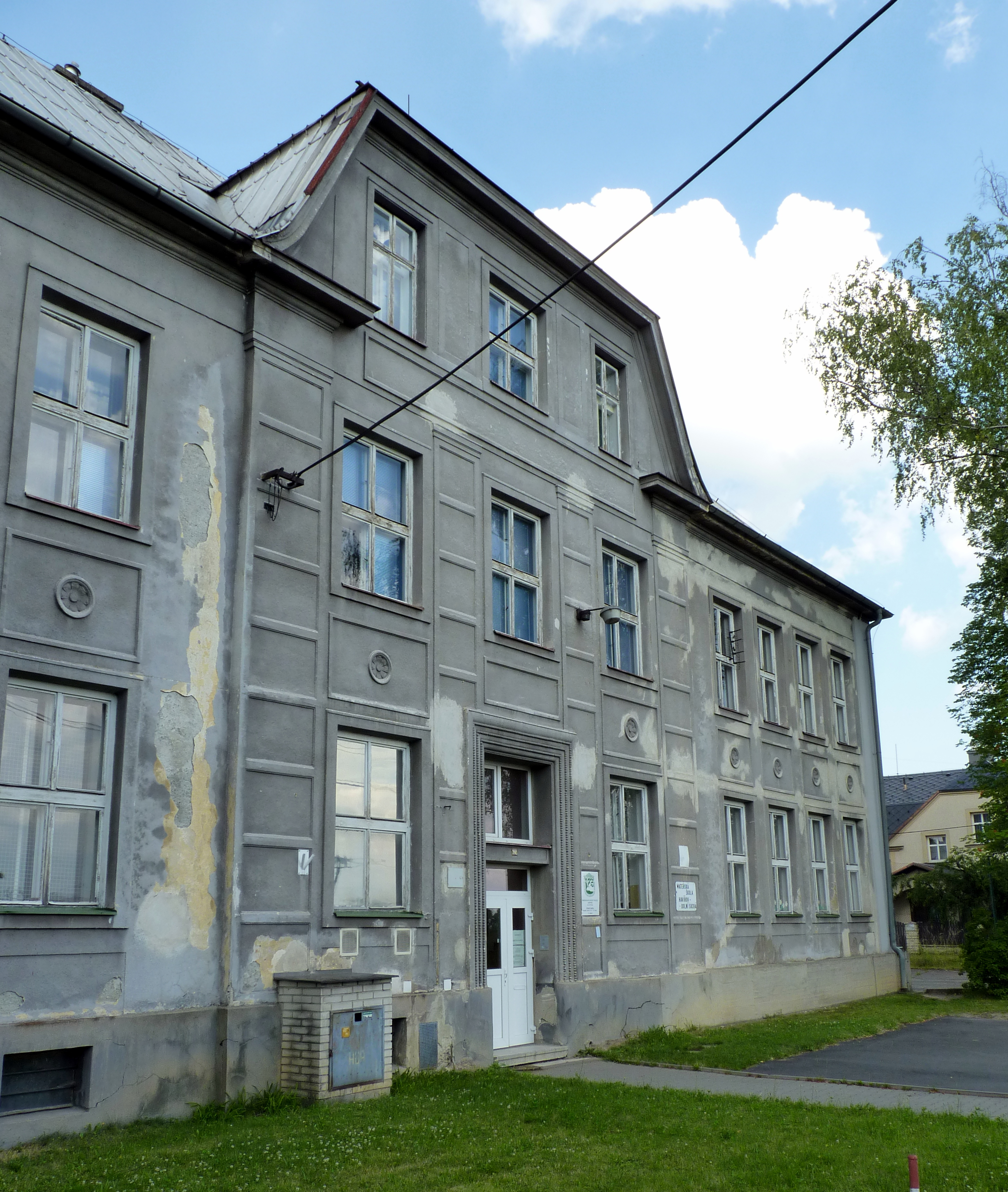 Dolni Sucha, Karvina District, Moravian-Silesian Region, Czech Republic